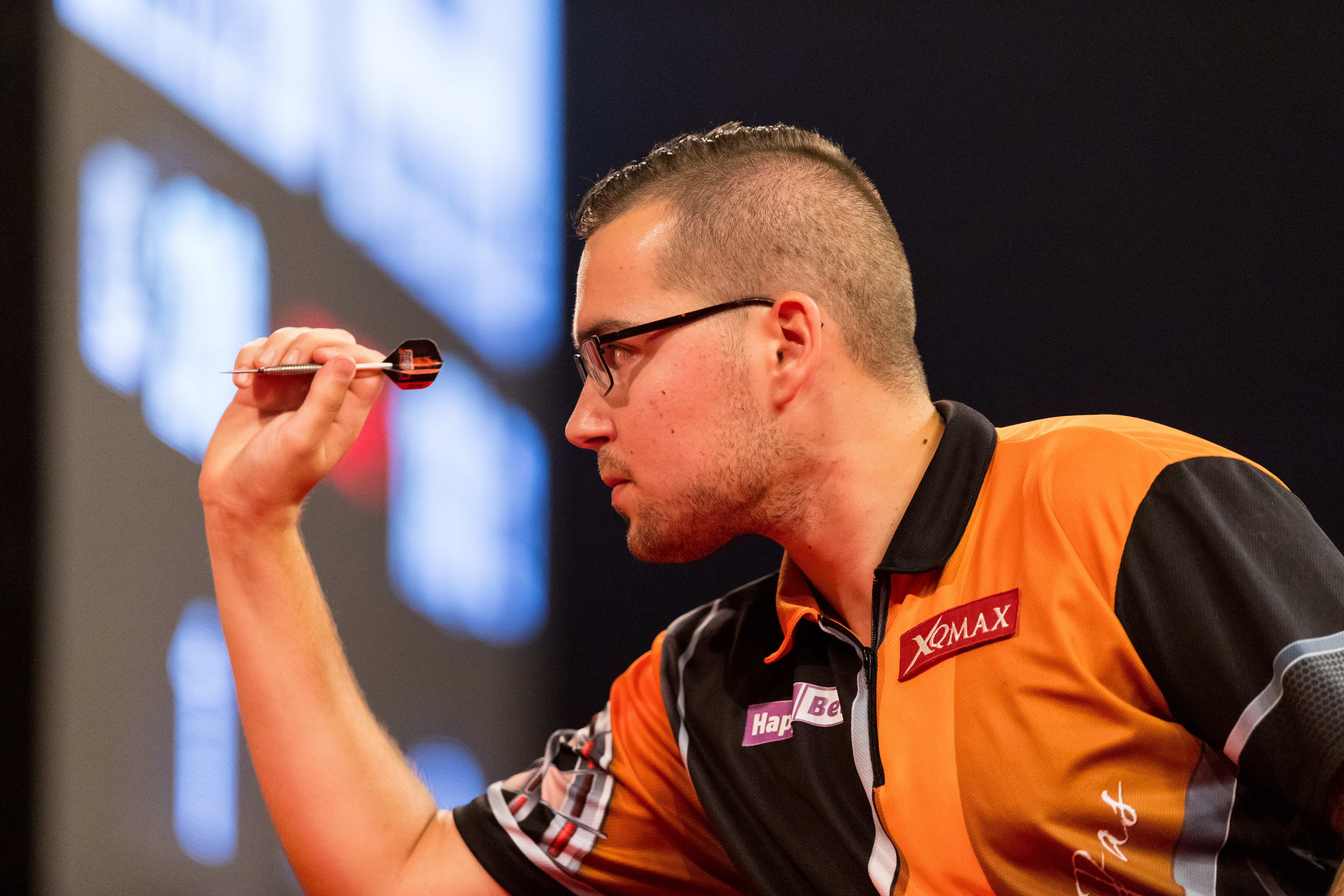 [10] Benito van de Pas (NED) 6:5 Vincent van der Voort (NED) during Professional Darts Corporation (PDC), German Darts Grand Prix (GDGP) at Maimarkthalle, Mannheim, Baden-Württemberg, Germany on 2017-09-10, Photo: Sven Mandel